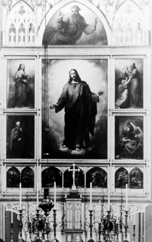 Altar of the Old Trinity Church in Leipzig